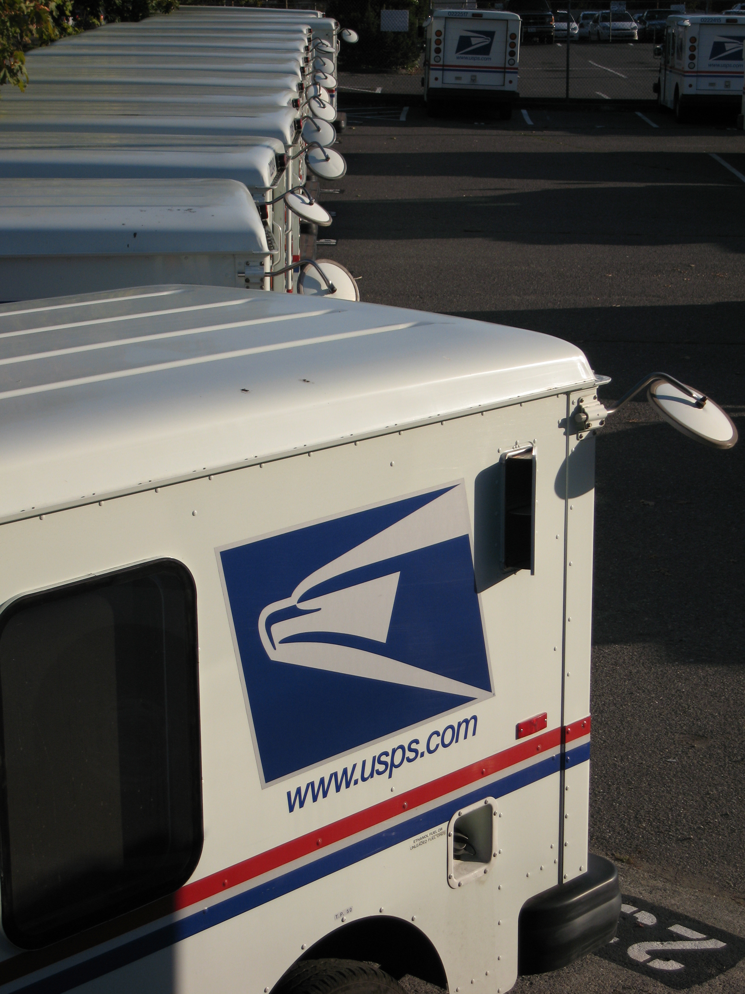 Look how nicely they park!